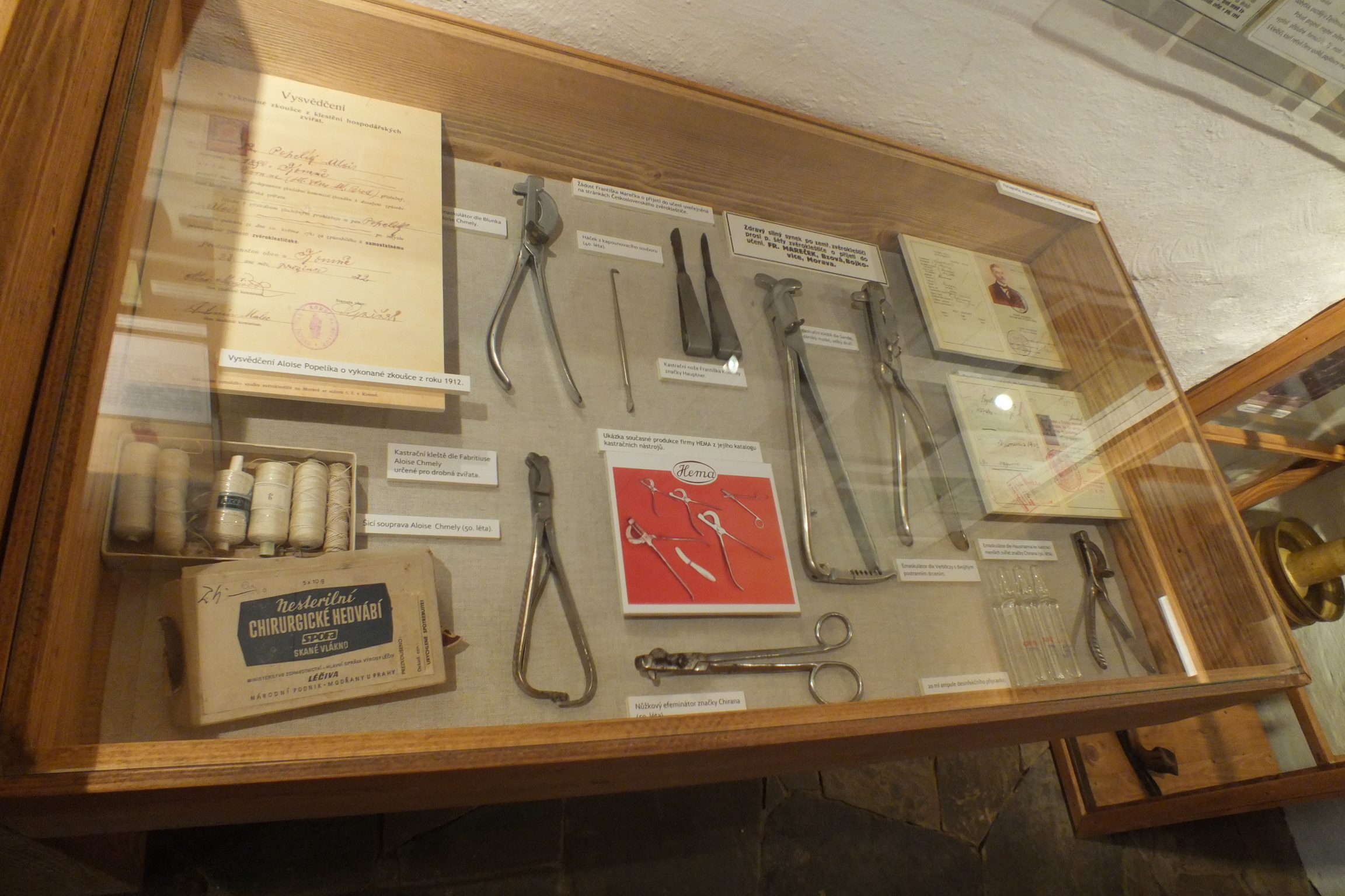 Museum of neutering in Komňa, No. 6. Neutering was a common job in the village in the past.